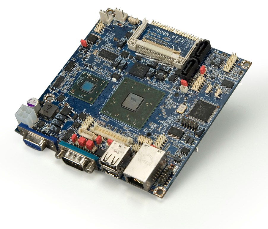 This is an image of the new VIA EPIA-N800 Nano-ITX Board from VIA Technologies.